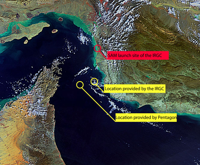 Disputing about location of shooting down a RQ-9 drone by the IRGC on June 20, 2019.